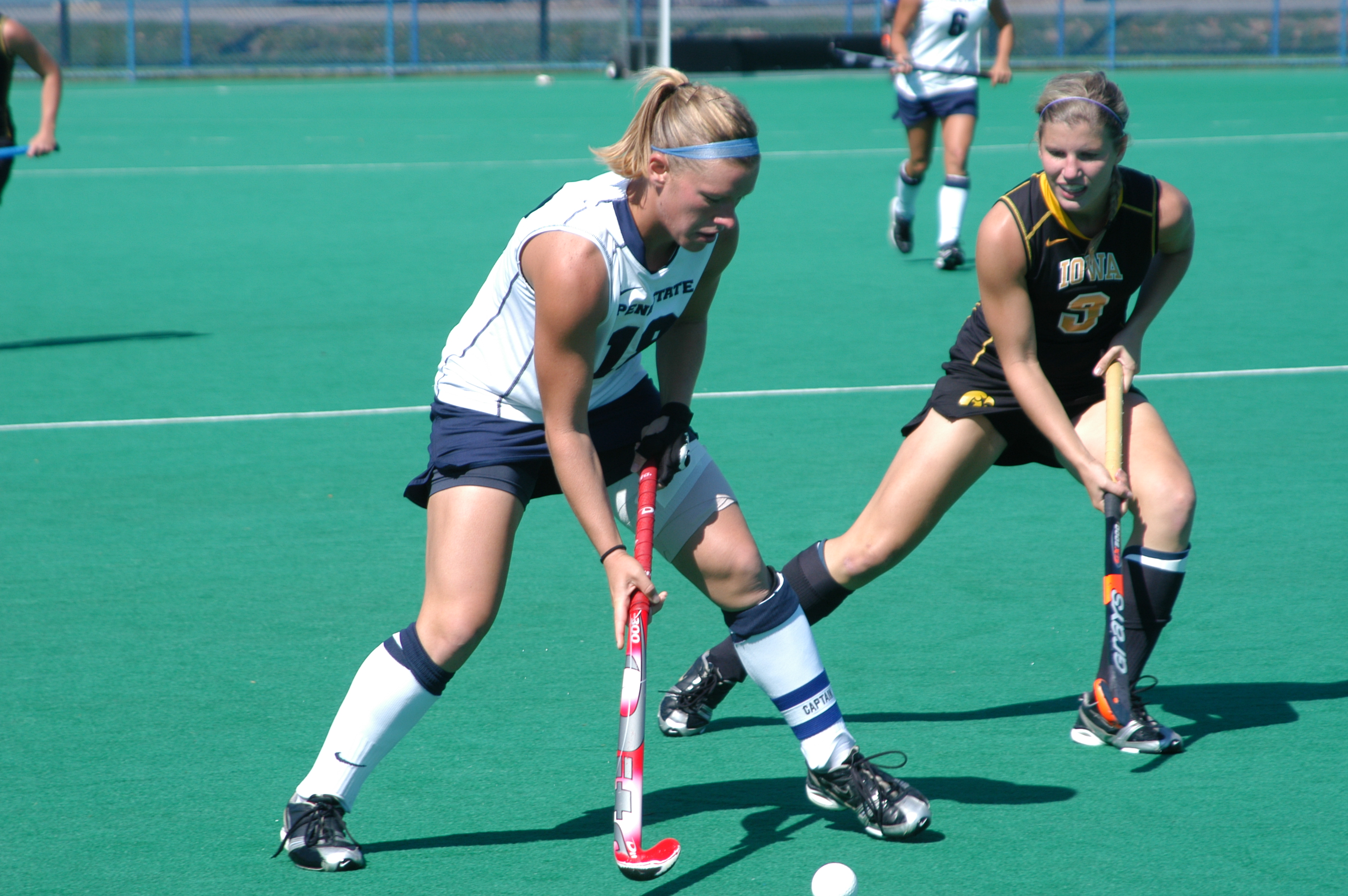 The Iowa Hawkeyes vs. the Penn State Nittany Lions during a Big Ten field hockey game in University Park, Pennsylvania.